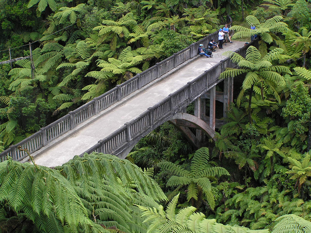 The Bridge to Nowhere in Whanganui National Park. The fern trees are most probably mamaku (Cyathea medullaris).